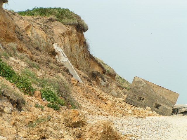 Coastal Erosion at Thorpeness, Suffolk. This wartime "pillbox" was at least 50ft from the cliff edge when I first saw it in 1997. No doubt it was even farther inland in the 1940s.